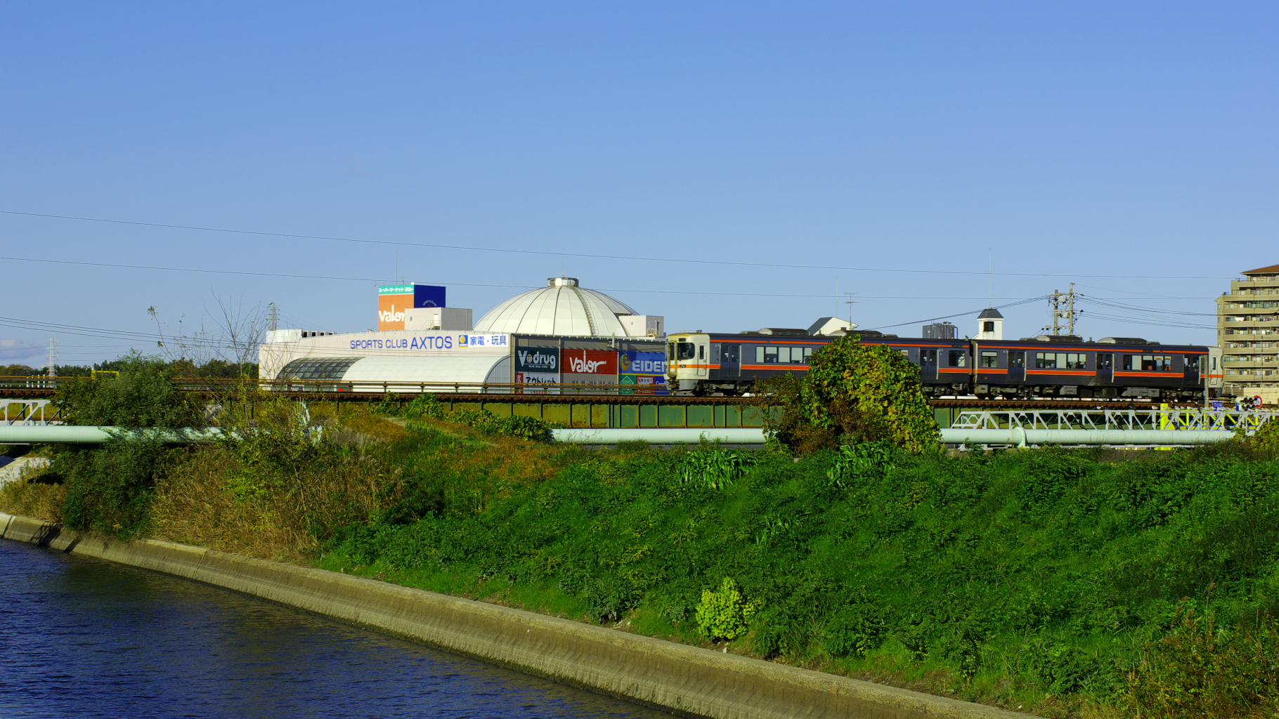 JR Central KiHa 25 DMU on the Taketoyo Line near Okkawa Station, with the Power Dome Handa shopping mall in the background